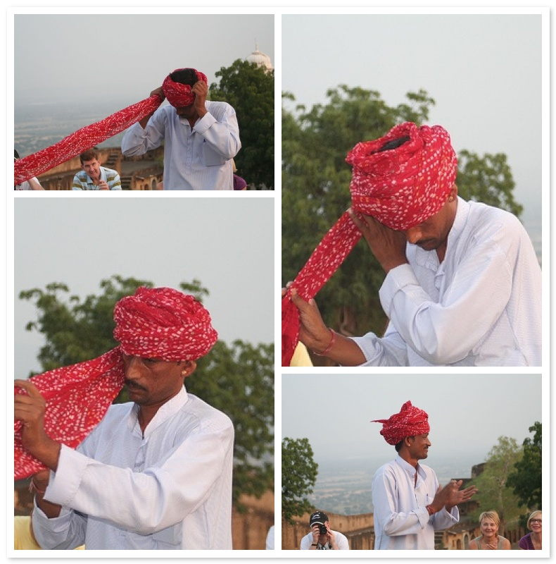 A member of staff at the Kuchaman Fort demonstrates how to put on your turban. Amongst Hindu men in Rajasthan the turban is worn as a hat rather than as a religious item. Each village has its own distinctive style and is made from between 5 and 10 metres of cloth. The majority of men will put on their turban from "fresh" each day rather than using a pre sewn version.